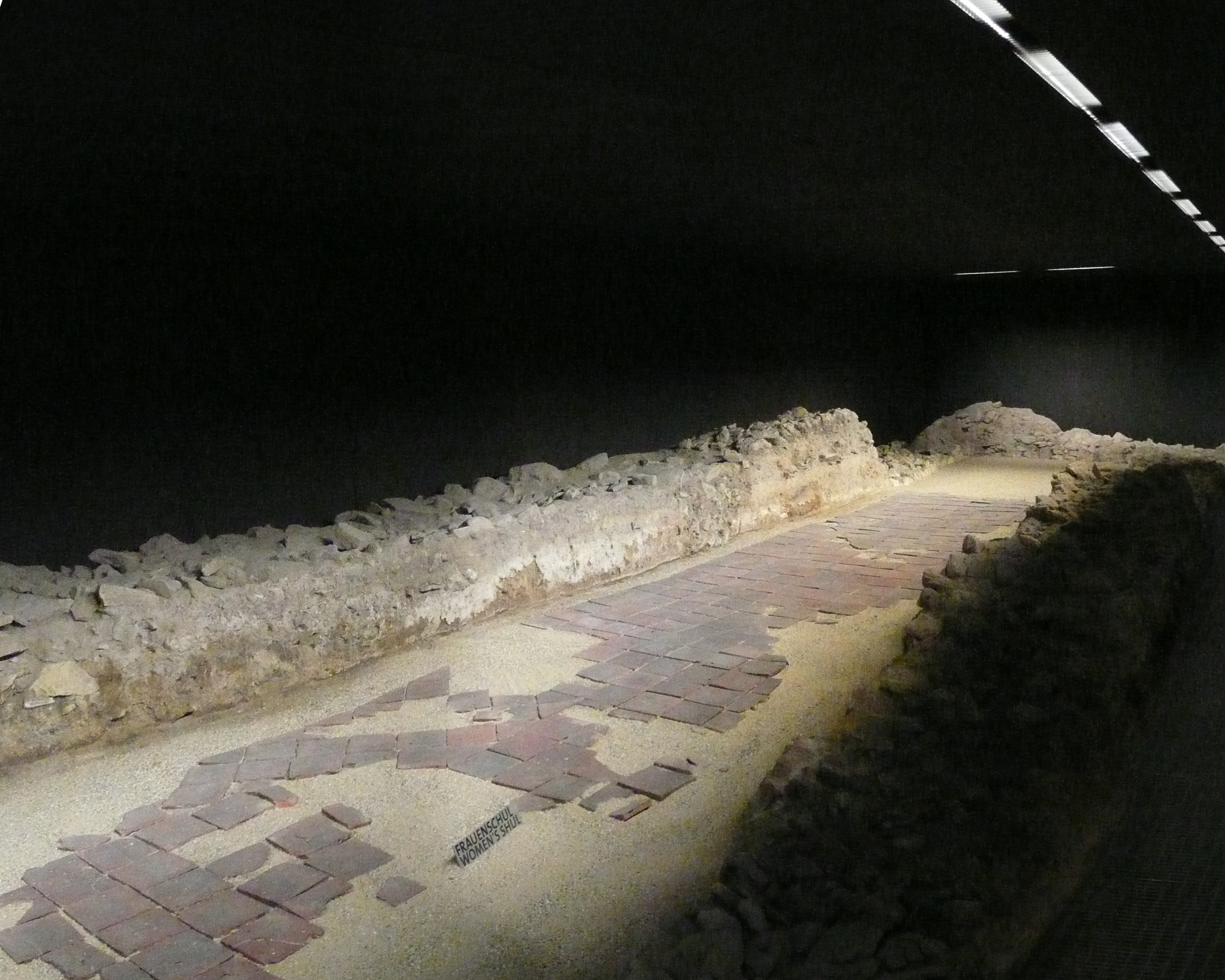 Women's Shul. Remains of Vienna's oldest synagogue. The synagogue was the spritiual centre of Jewish scholarship which extended over the continent of Europea and enjoyed one of its heydays here in Vienna. The destruction of the synagogue in 1421, motivated by hatred and misconceptions, marked the end of Vienna's first Jewish community. This site now serves as a memorial to the victims of the Vienna Gesera.